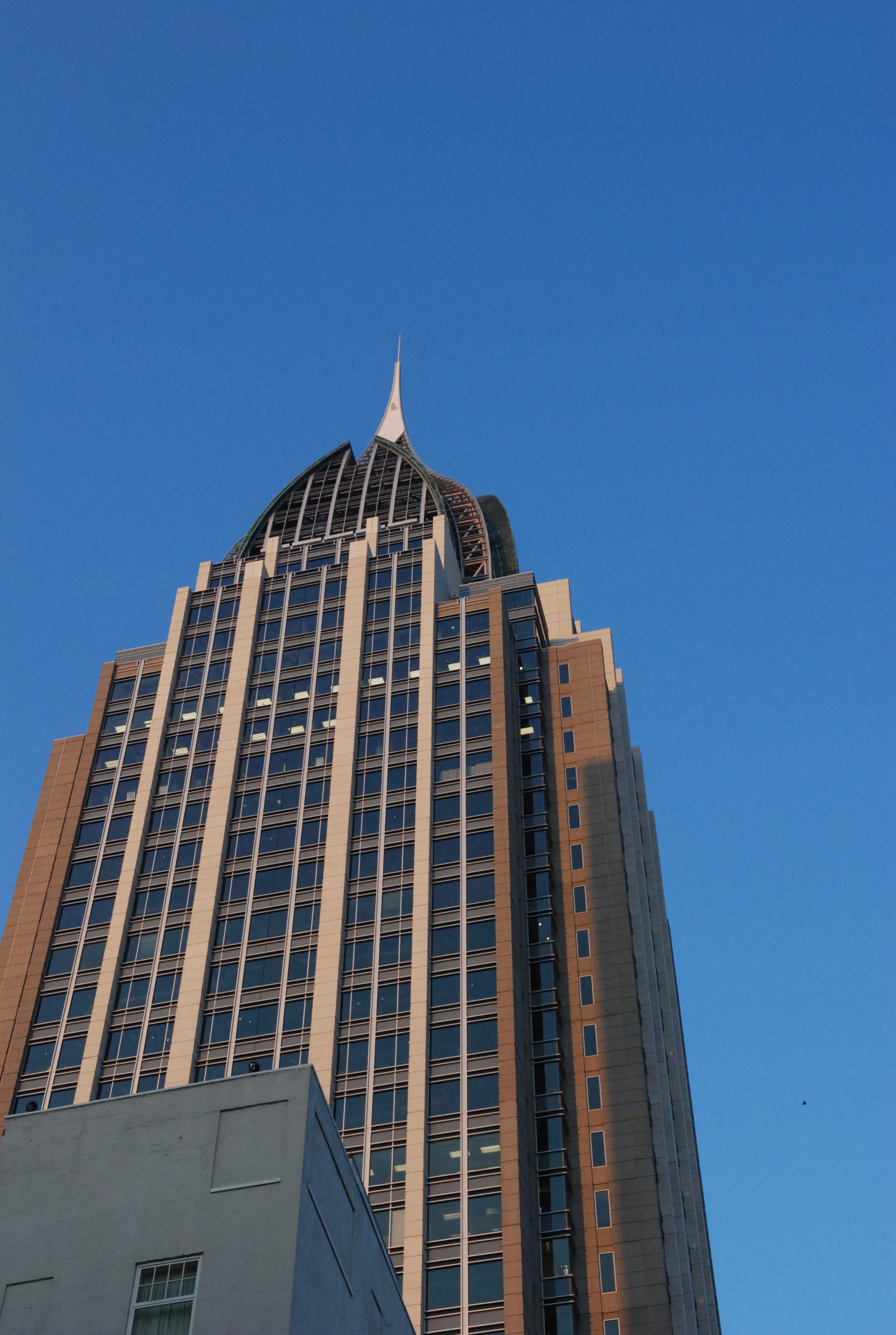 The RSA Battle House Tower in Mobile, Alabama